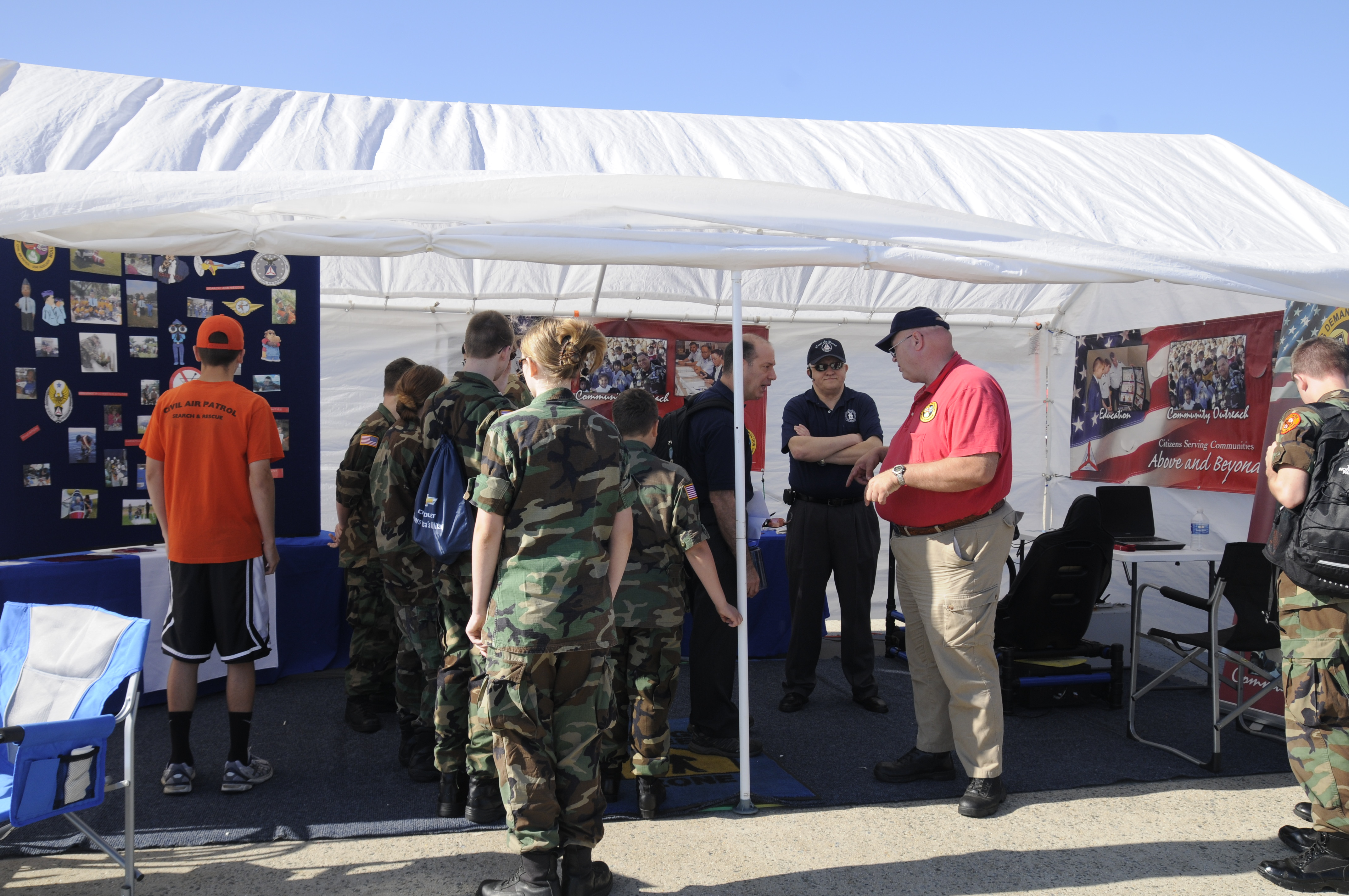 Retired Air force Lt. Col. Murry Mariakis speaks with High school Civil Air Patrol Cadets about flying from Maryland May 21, at the Joint Service Open House on Andrews Air Force Base, Md. Mariakis is a member of the USAF Civil Air Patrol and volunteered to his time.